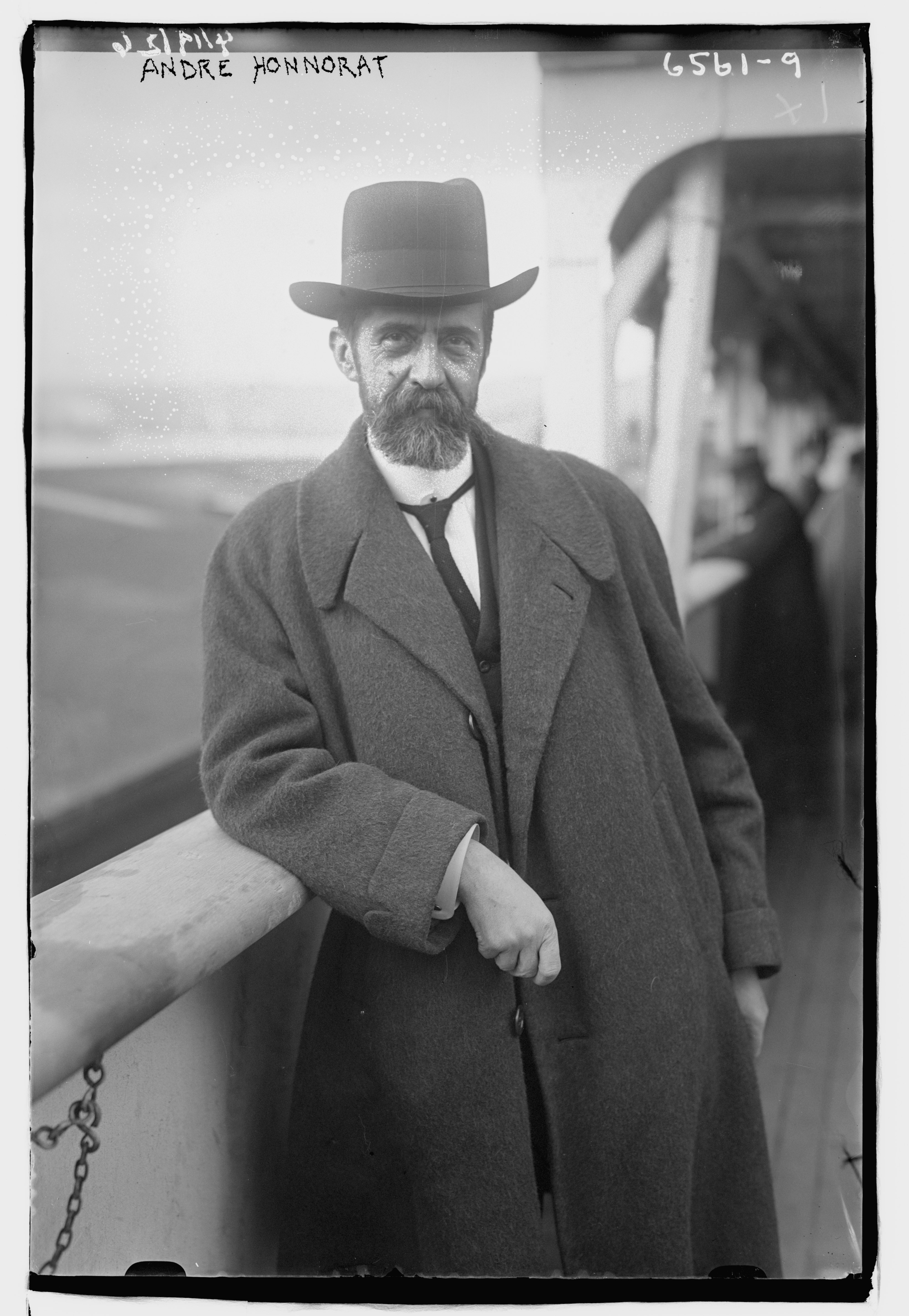 Title: Andre Honnorat Abstract/medium: 1 negative : glass ; 5 x 7 in. or smaller.